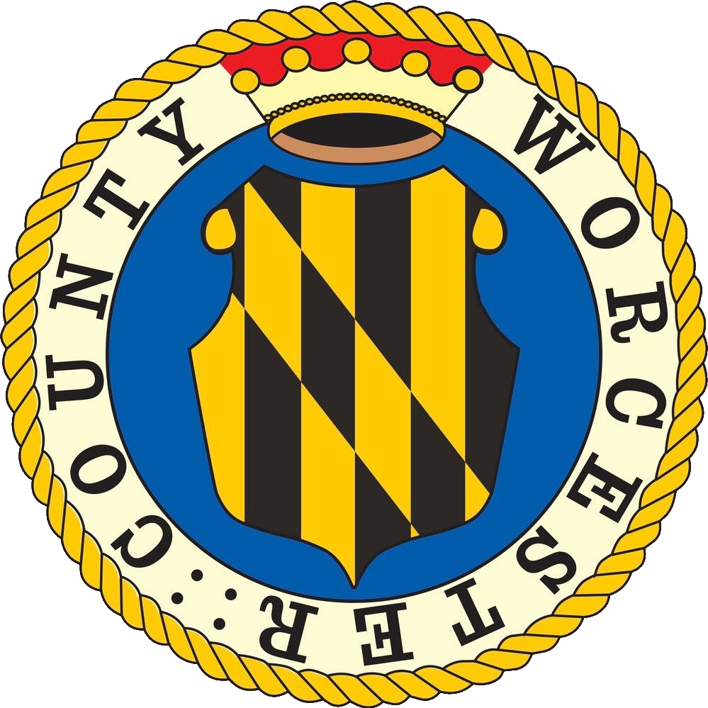 County seal, adopted in 1981.